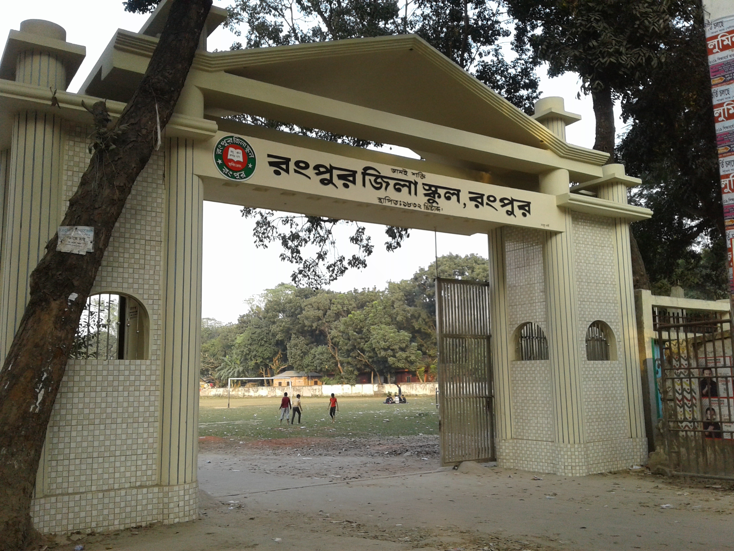 Newly constructed main gate of Rangpur Zilla School